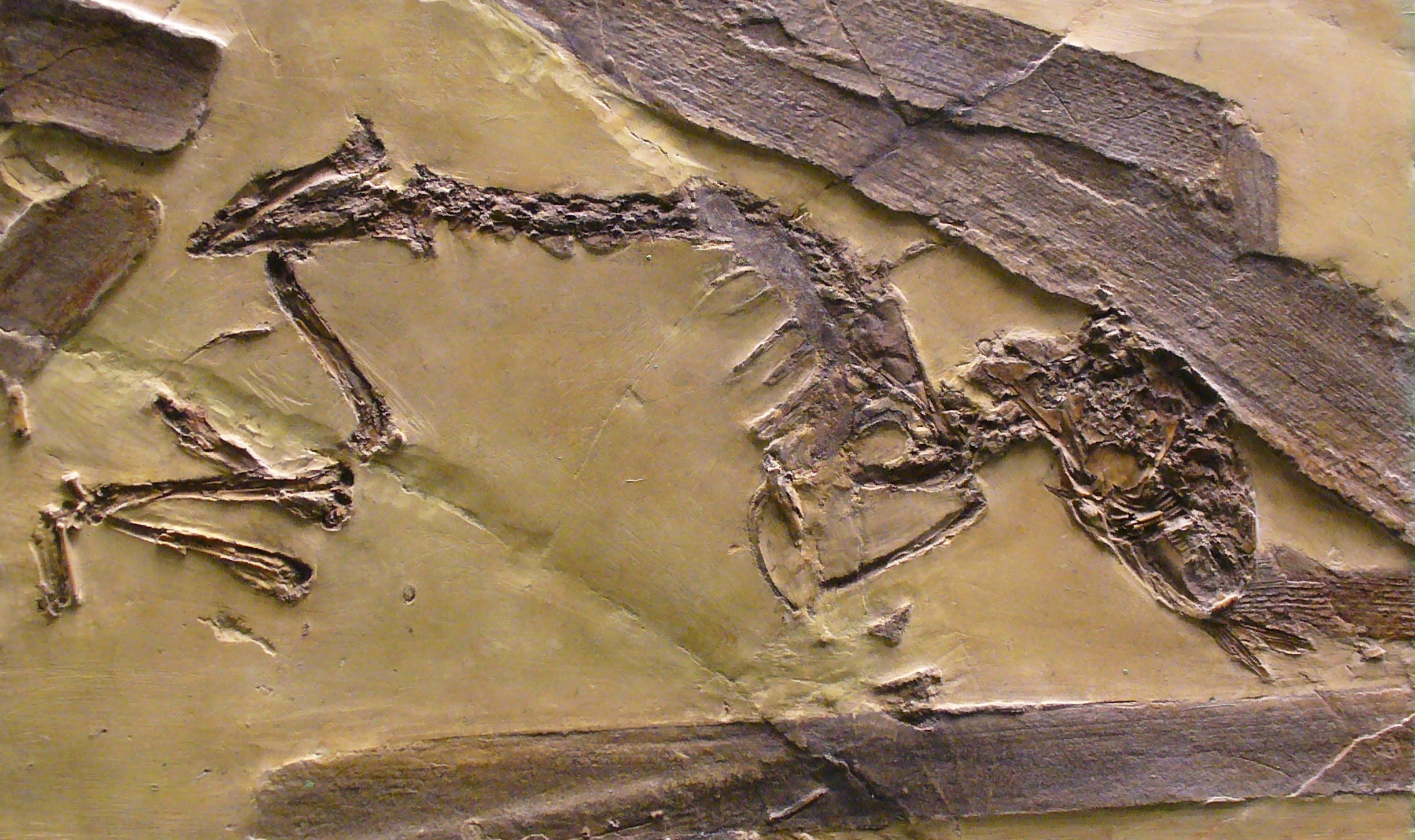 Prolagus oeningensis, Prolagidae, Pika; Miocene, Öhningen layers, Öhningen, Germany; Staatliches Museum für Naturkunde Karlsruhe, Germany.